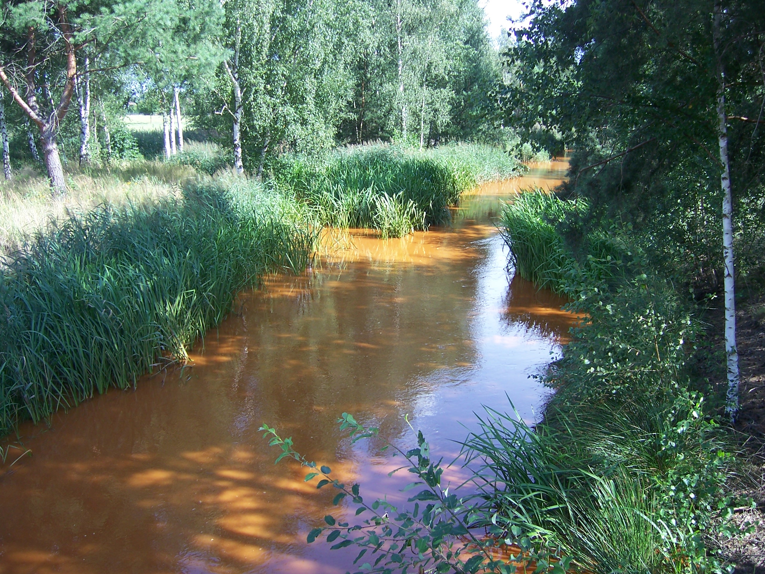 Struga and Breiter Graben near Mulkwitz, Saxony Hornjoserbsce: Wuliw Šěrokeje hrjebje (horjeka) do Strugi (nalěwo) pola Mułkec